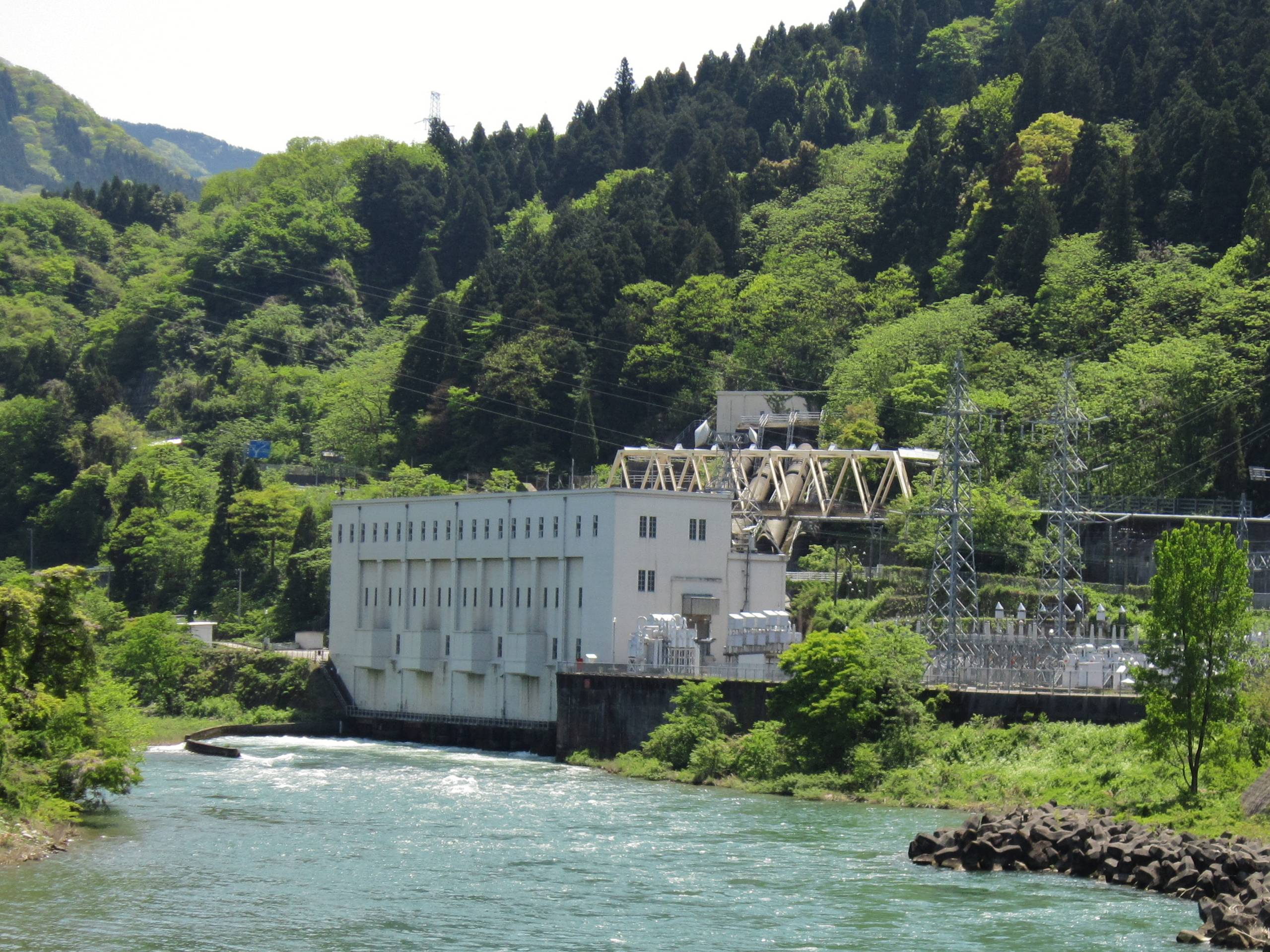 Komaki power station.